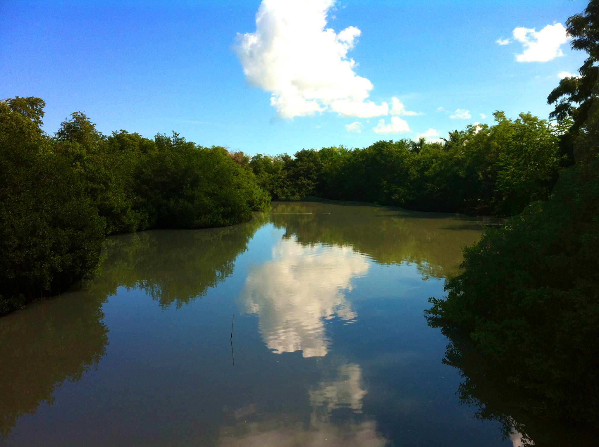 Caño Martín Peña was once a navigable waterway through the center of San Juan, connecting two lagoons. Peasants who migrated to San Juan from rural areas during the first half of the 20th century settled along the Caño and built their houses among mangroves. Over time, the Caño (canal) closed in with debris and waste. Over 3,000 structures were located where there was no sewer system, which contributes to environmental degradation and dangerous health conditions when flooding occurs every time it rains. Photo depicts nice side of Caño Martín Peña by Martín Peña bridge on Highway No. 25 (Avenida Ponce de León)